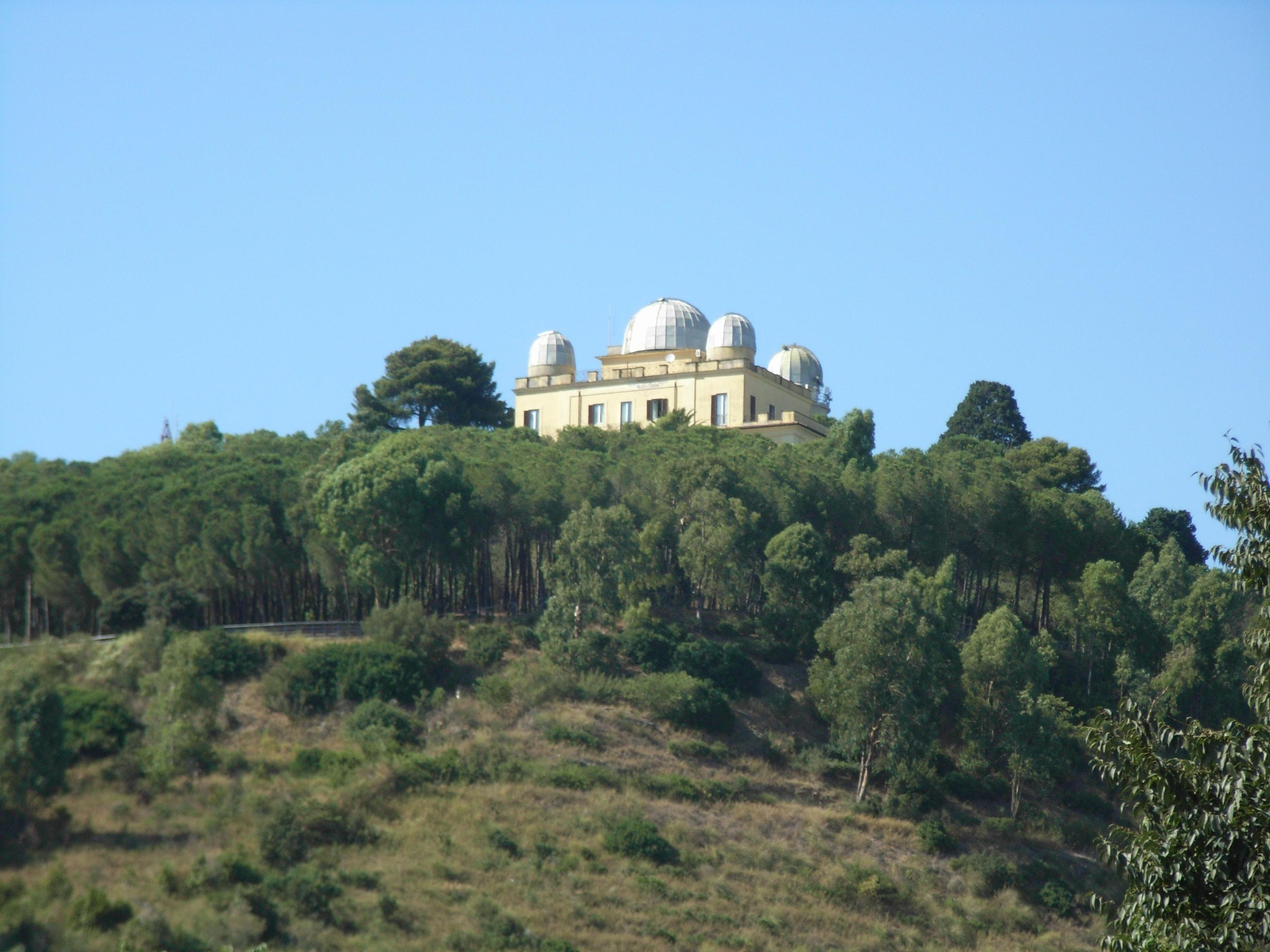 Monte Mario Observatory Rome